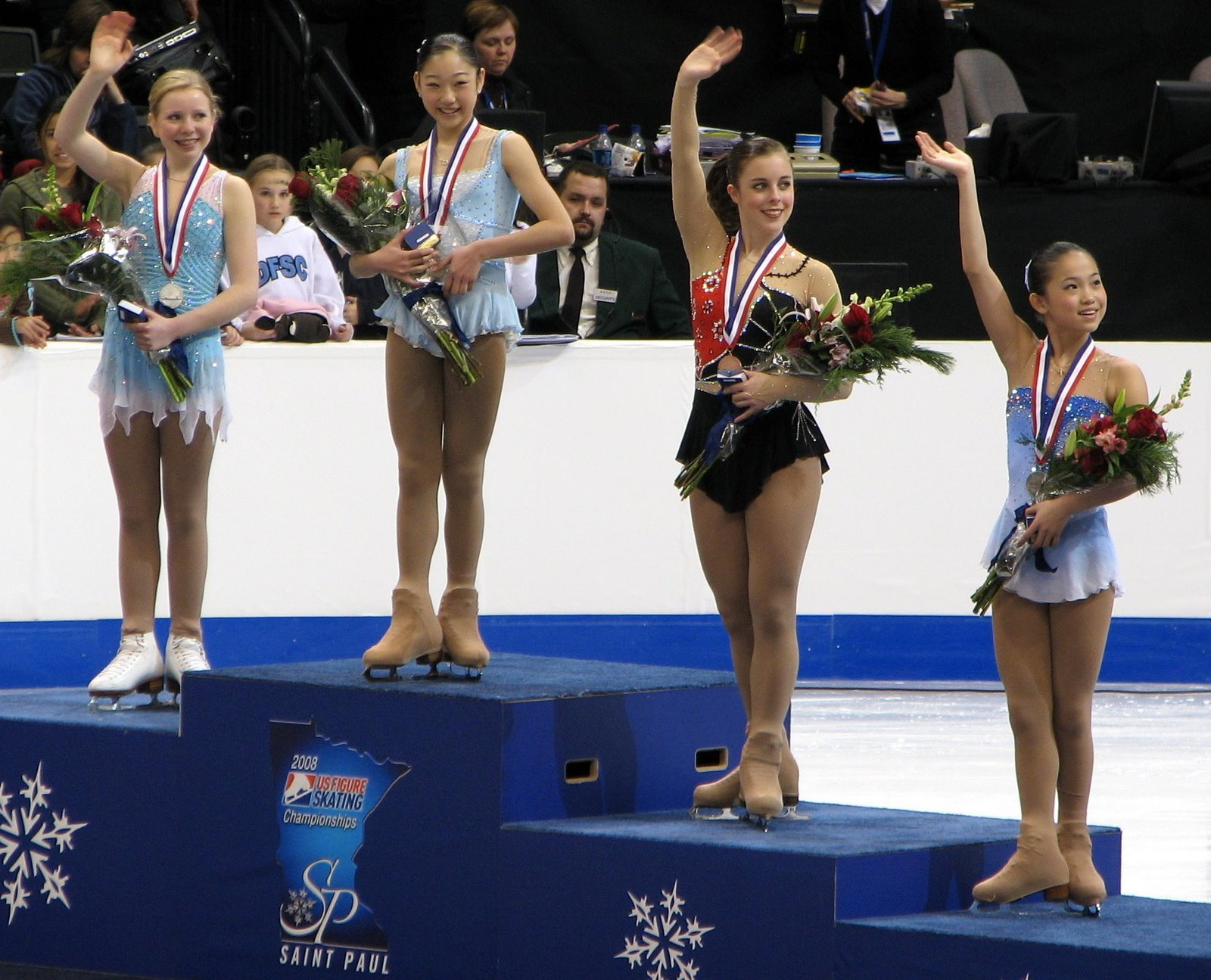 Ladies podium from the 2008 U.S. Figure Skating Championships in St. Paul, MN. From left-right: Rachael Flatt (silver), Mirai Nagasu (gold), Ashley Wagner (bronze), Caroline Zhang (pewter).